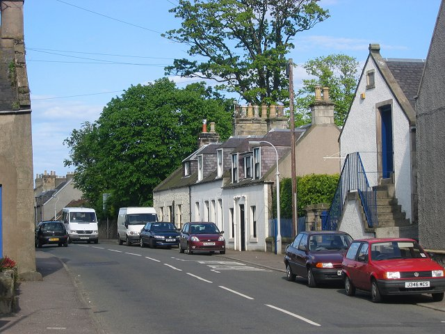 Upper Largo. AKA Kirktown of Largo. Village under Largo Law